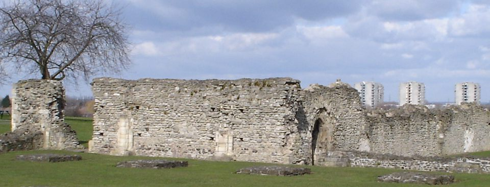 The ruins of Lensnes Abbey, London. I took this photo myself, and I'm releasing it into the public domain. It's not as if it's a very good picture anyway. Category:Images of buildings and structures Category:Images of England